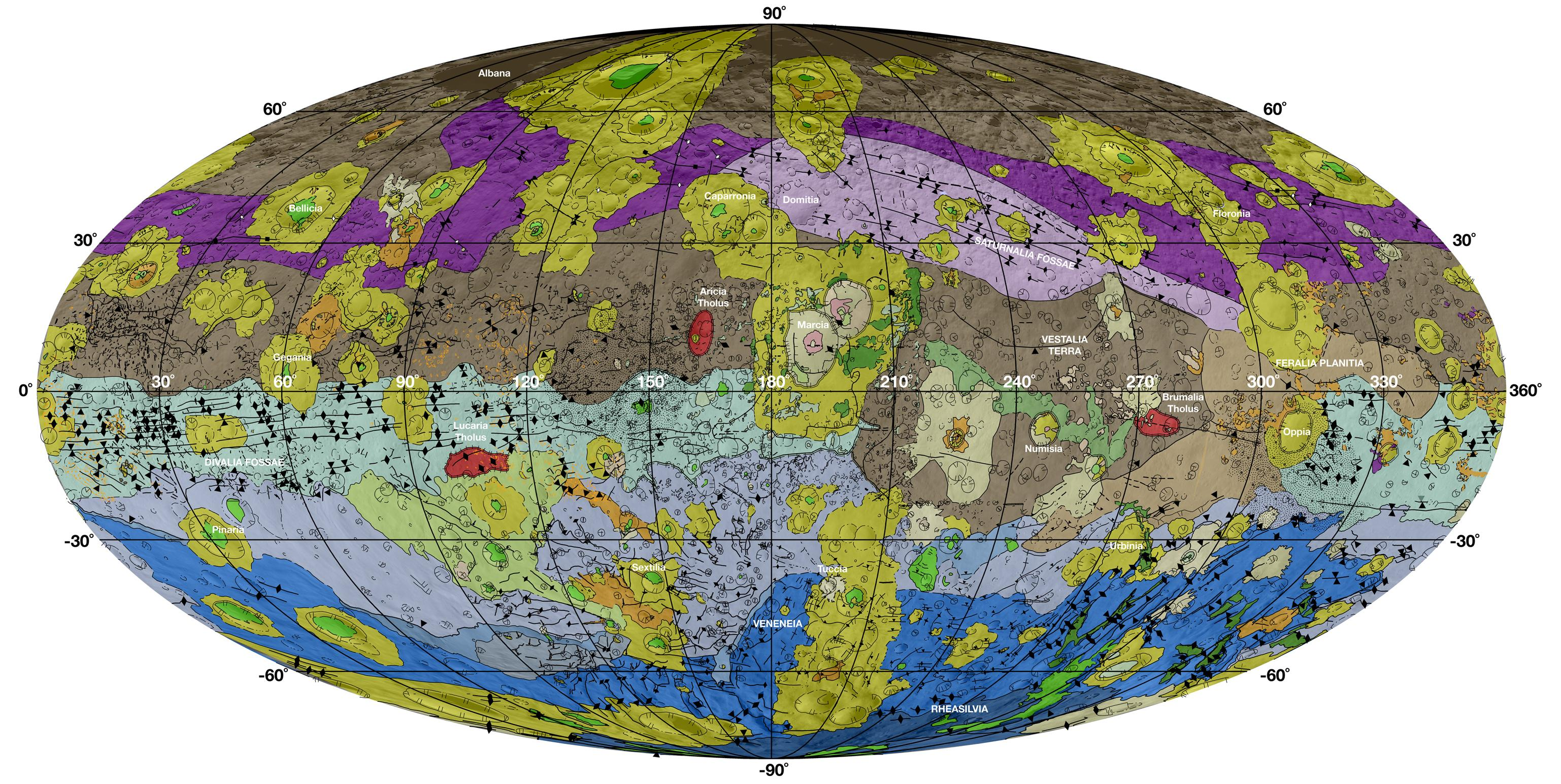 Geological Map of Vesta November 17, 2014 This high-resolution geological map of Vesta is derived from Dawn spacecraft data. Brown colors represent the oldest, most heavily cratered surface. Purple colors in the north and light blue represent terrains modified by the Veneneia and Rheasilvia impacts, respectively. Light purples and dark blue colors below the equator represent the interior of the Rheasilvia and Veneneia basins. Greens and yellows represent relatively young landslides or other downhill movement and crater impact materials, respectively. This map unifies 15 individual quadrangle maps published this week in a special issue of Icarus. Map is a Mollweide projection, centered on 180 degrees longitude using the Dawn Claudia coordinate system. JPL manages the Dawn mission for NASA's Science Mission Directorate in Washington. Dawn is a project of the directorate's Discovery Program, managed by NASA's Marshall Space Flight Center in Huntsville, Alabama. The University of California at Los Angeles (UCLA) is responsible for overall Dawn mission science. Orbital Sciences Corp. in Dulles, Virginia, designed and built the spacecraft. The German Aerospace Center, the Max Planck Institute for Solar System Research, the Italian Space Agency and the Italian National Astrophysical Institute are international partners on the mission team. More information about Dawn is online at